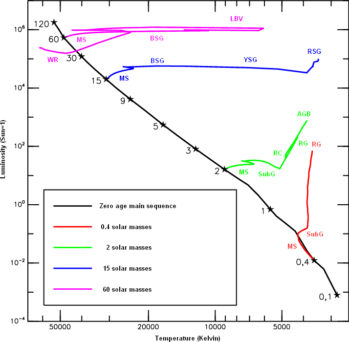 Sample stellar evolutionary tracks for single stars, zero initial rotational velocity, and solar metallicity AGS Asymptotic Giant Branch RG Red Giant SubG Subgiant MS Main Sequence RC Red Clump BSG Blue Supergiant YSG Yellow Supergiant RSG Red Supergiant WR Wolf-Rayet stars LBV Luminous blue variables